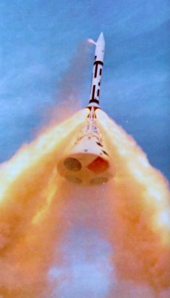 Apollo LES Pad Abort Launch, White Sands, New Mexico. (NASA)